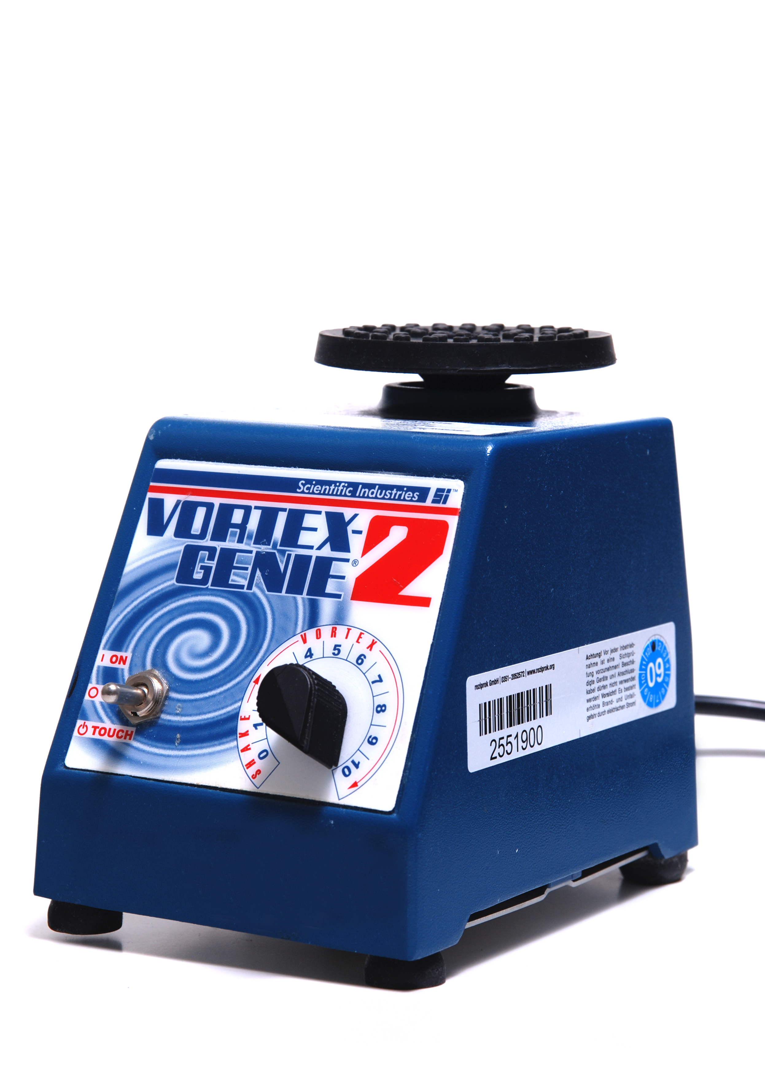 Vortex mixer, Vortex Genie 2